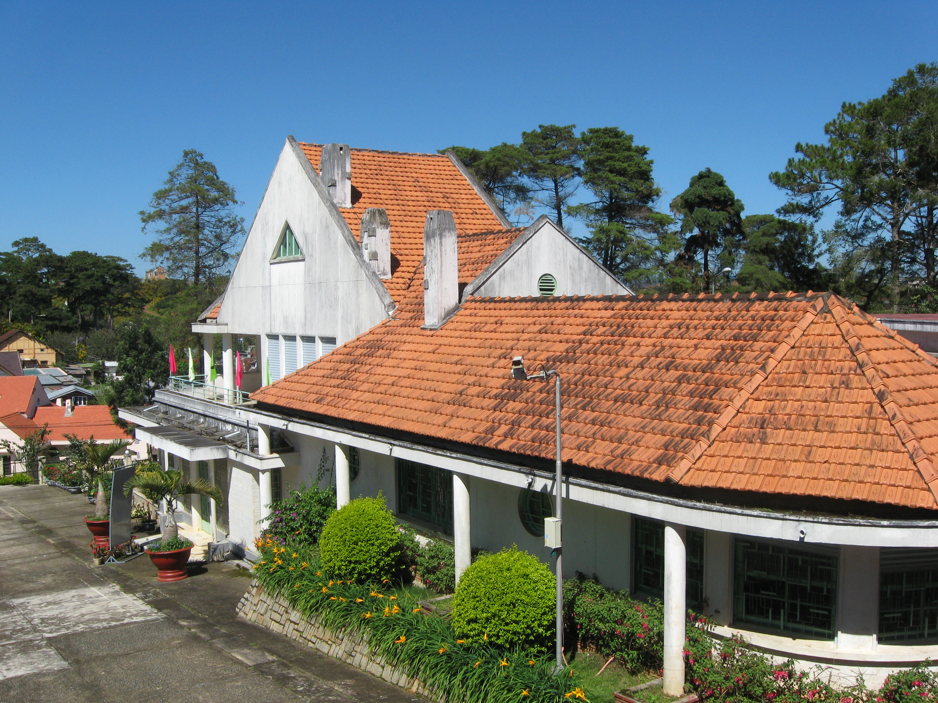 Lam Ngoc villa, Tran Le Xuan Villa